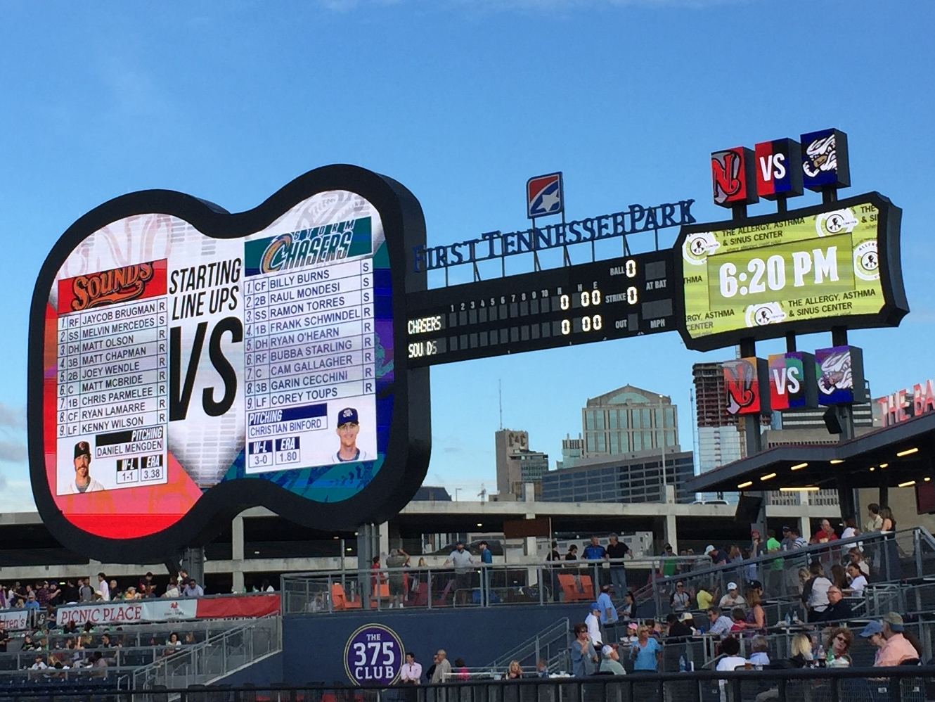 The guitar scoreboard at First Tennessee Park displaying the starting lineups for the Nashville Sounds and Omaha Storm Chasers.